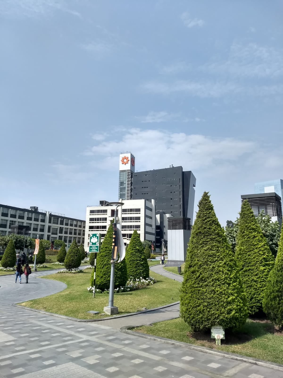 Vista de la torre principal desde el parque del este en el campus de Monterrico.